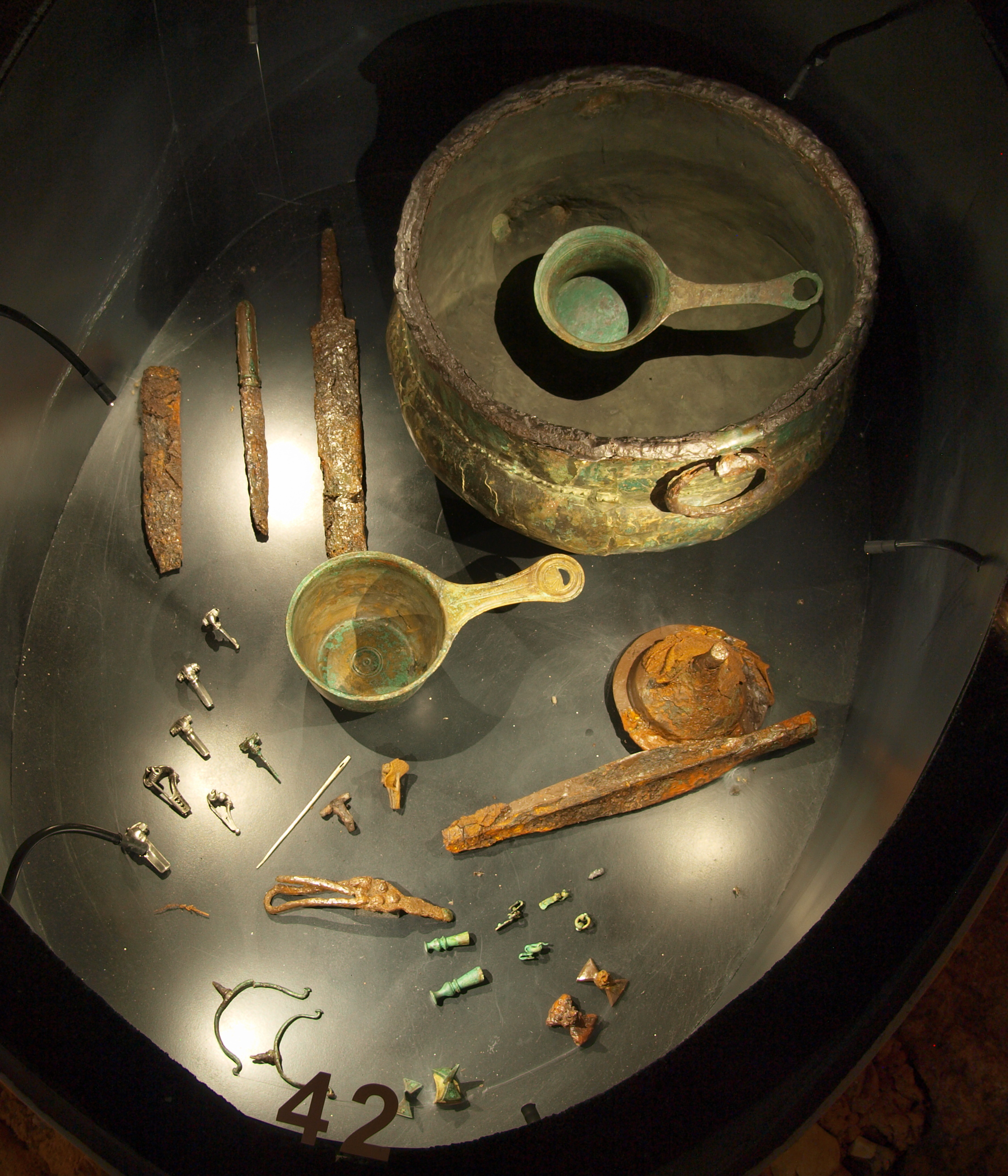 Items from the Lombard warrior's grave Putensen 150, dating to circa 50 A.D., in the community Salzhausen, District of Harburg, Germany. It consists of a Roman bronze cauldron, 2 Roman casseroles (patherae), sword, dagger, knife, 8 fibulae, silver pin, shield boss, lance point, belt buckle, 2 drinking horn fittings, 3 pairs of spurs. Photographed at Archaeological Museum Hamburg, Germany.